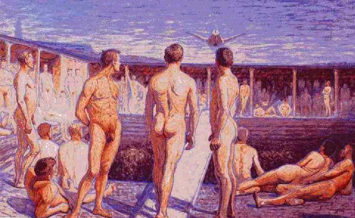 Not to be confused with: Navy bathhouse (swandive), 1907